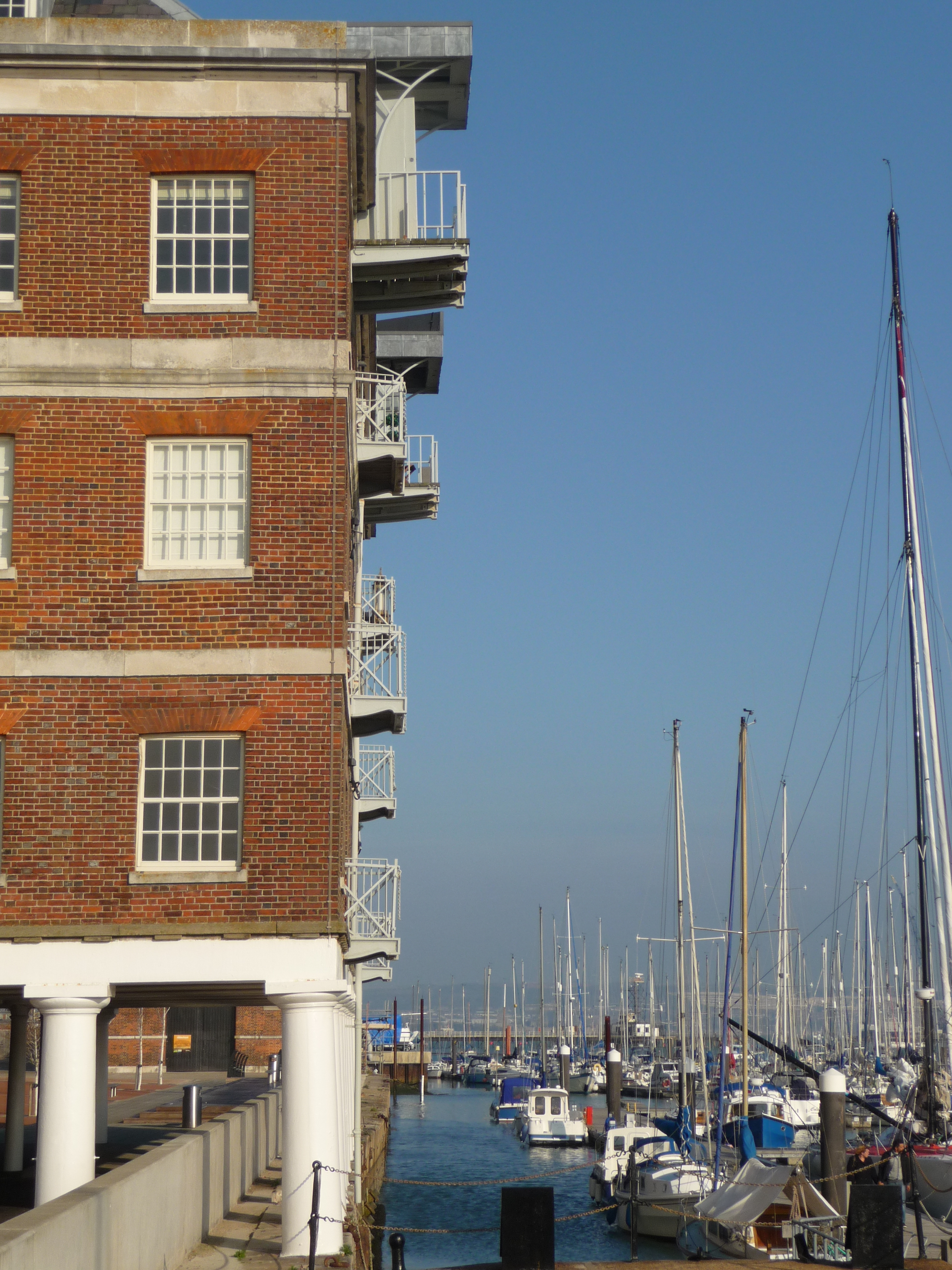 The Granary on the Royal Clarence Yard Waterfront is a late Georgian style, red-brick building with Grade II* Listed Building status.